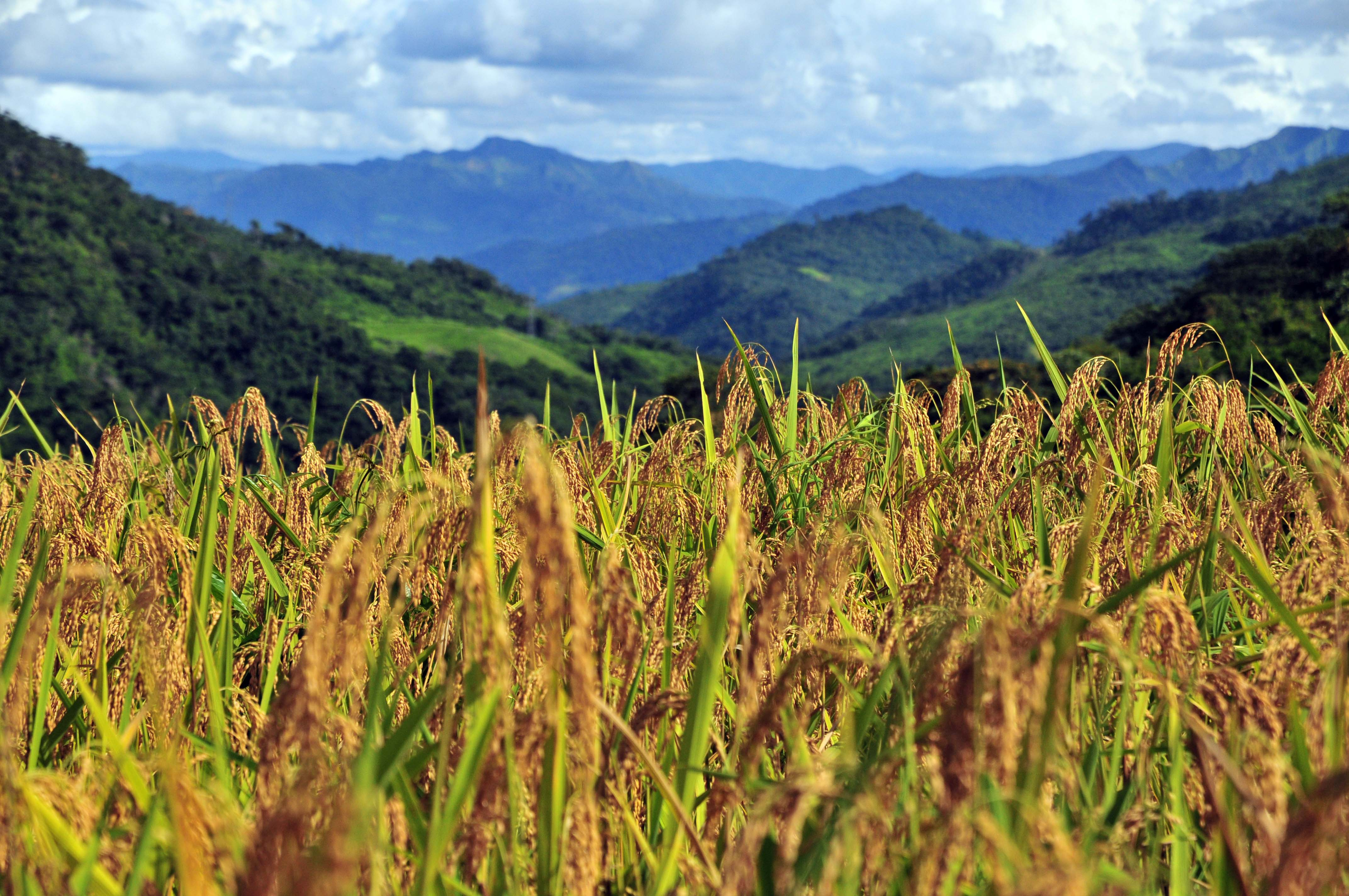 Pic by Neil Palmer (CIAT). Upland rice growing near Caranavi, Bolivia. Please credit accordingly.